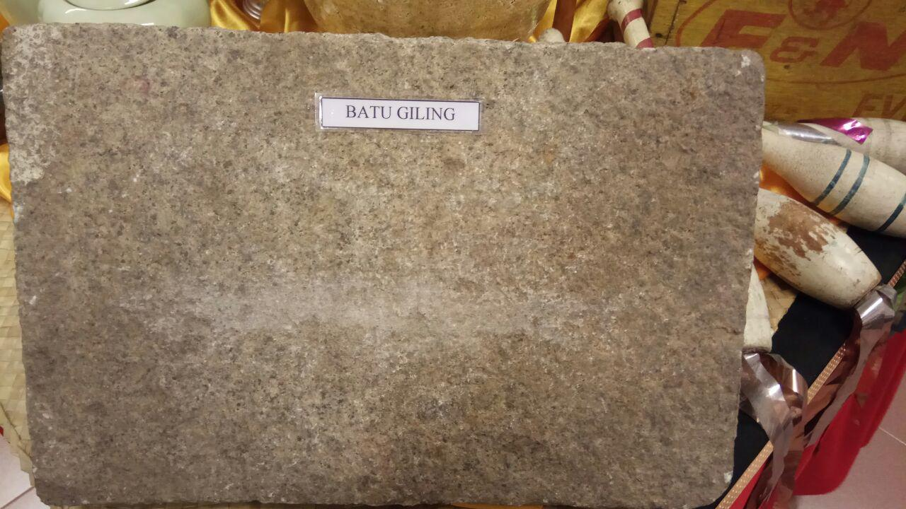 Batu Giling